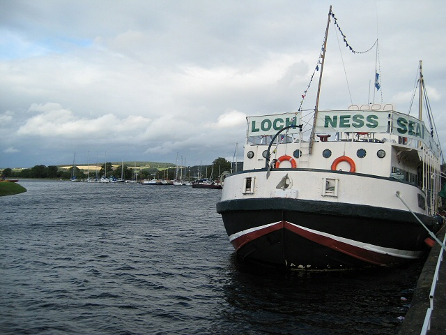 Muirtown Basin Looking seawards towards the marina. The boat in the foreground is a floating restaurant.